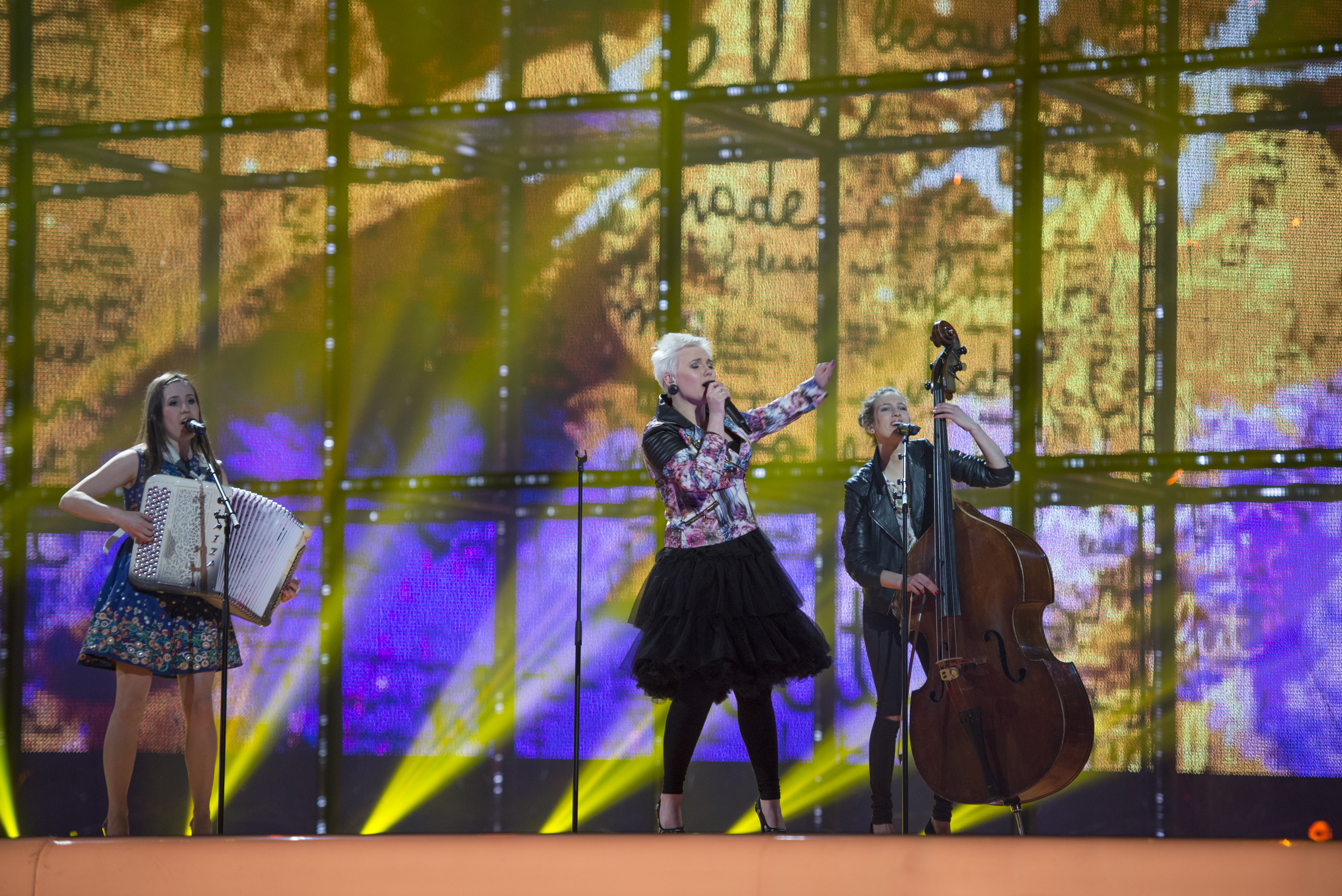 Elaiza representing Germany with the song "Is It Right" during the first dress rehearsal of the final of the Eurovision Song Contest 2014 Copenhagen. (Help translate this text)